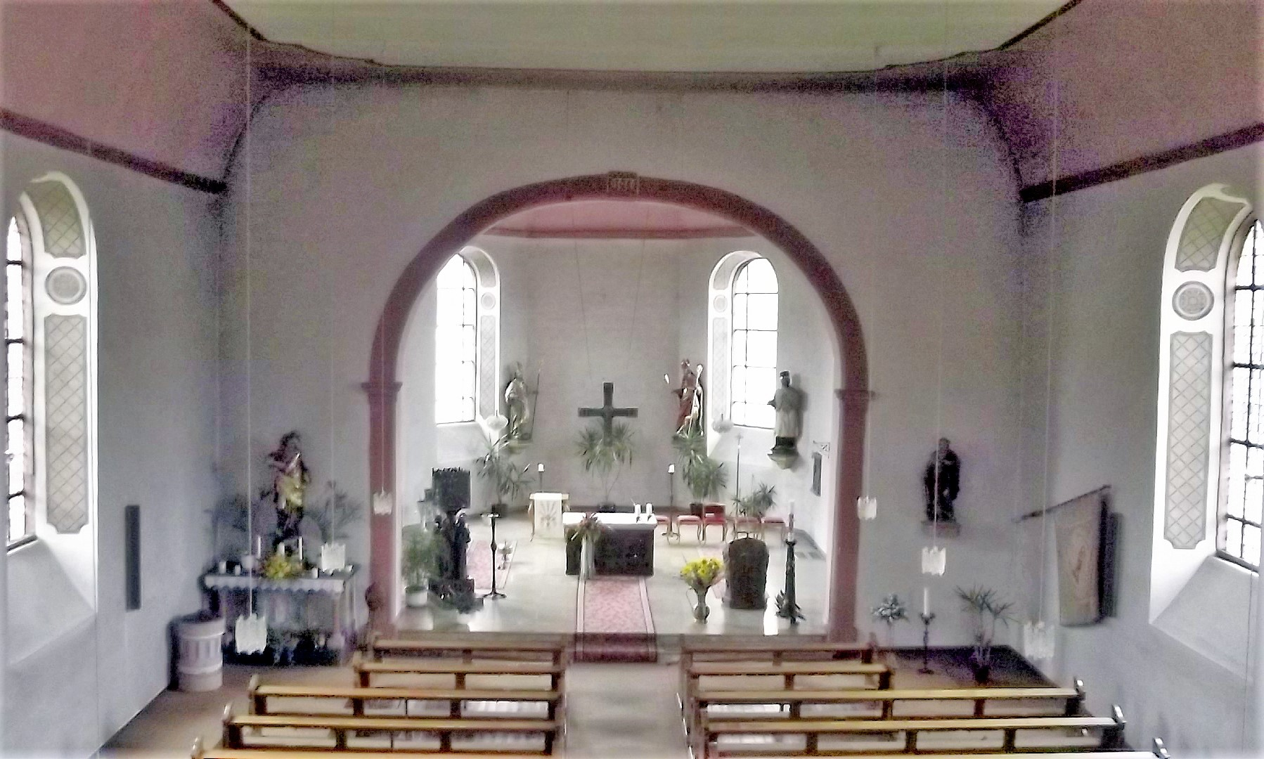 Roman catholic church in Kastel, Saarland, Germany